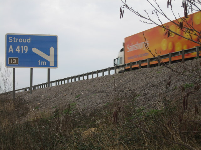 Food miles M5 northbound, approaching Junction 13